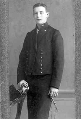 Karel Doorman (1889-1942) as midshipman